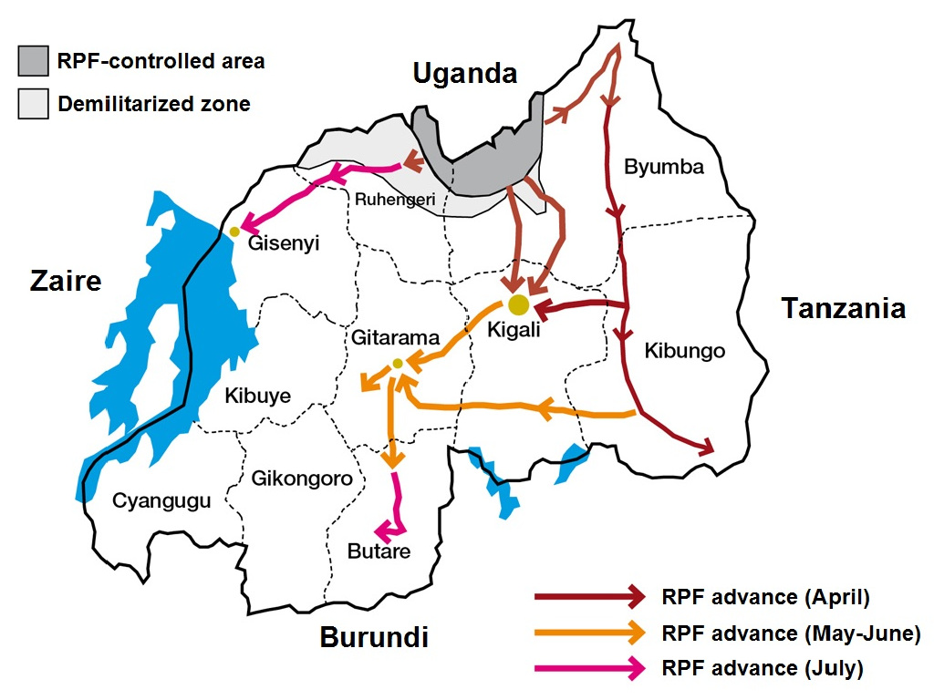 Map showing the advance of the RPF during the Rwandan Genocide of 1994. English language version of an existing German-language Commons file found here made by CosmicGirl based on info found in: Alan J. Kuperman: The limits of humanitarian intervention. Genocide in Rwanda, Brookings Institution Press, Washington, DC 2001, ISBN 0-8157-0086-5, Seite//page 43.